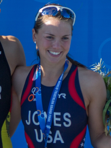 Erin Jones at Flower Ceremony of U23 Women Championship at 2014 ITU World Triathlon Grand Final Edmonton